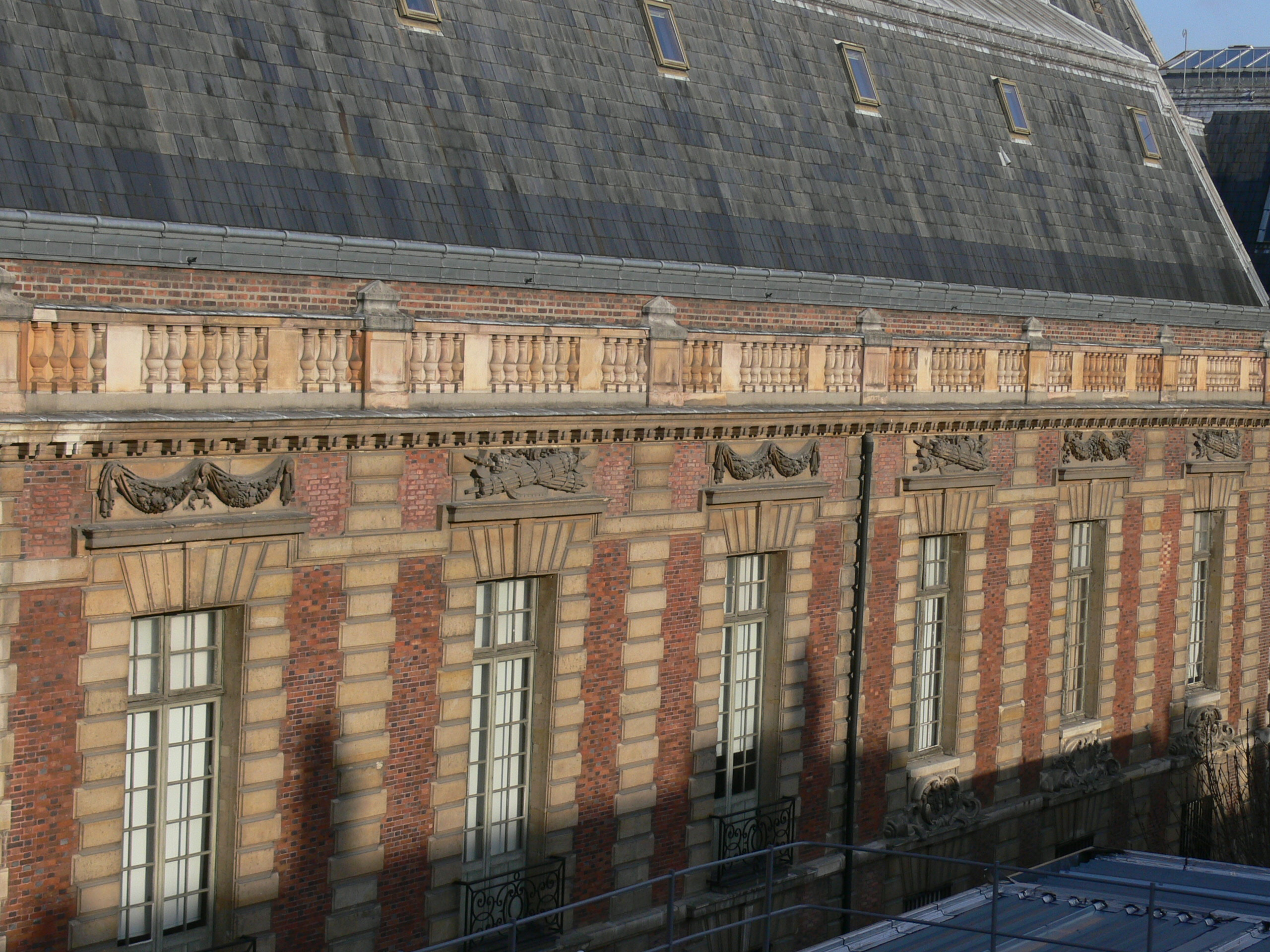 Garden wing on the Vivienne Courtyard of the Hôtel Tubeuf, originally constructed in 1644–1646 for Cardinal Mazarin to designs by François Mansart and later extensively restored. - BnF (French National Library) - site Richelieu, Paris